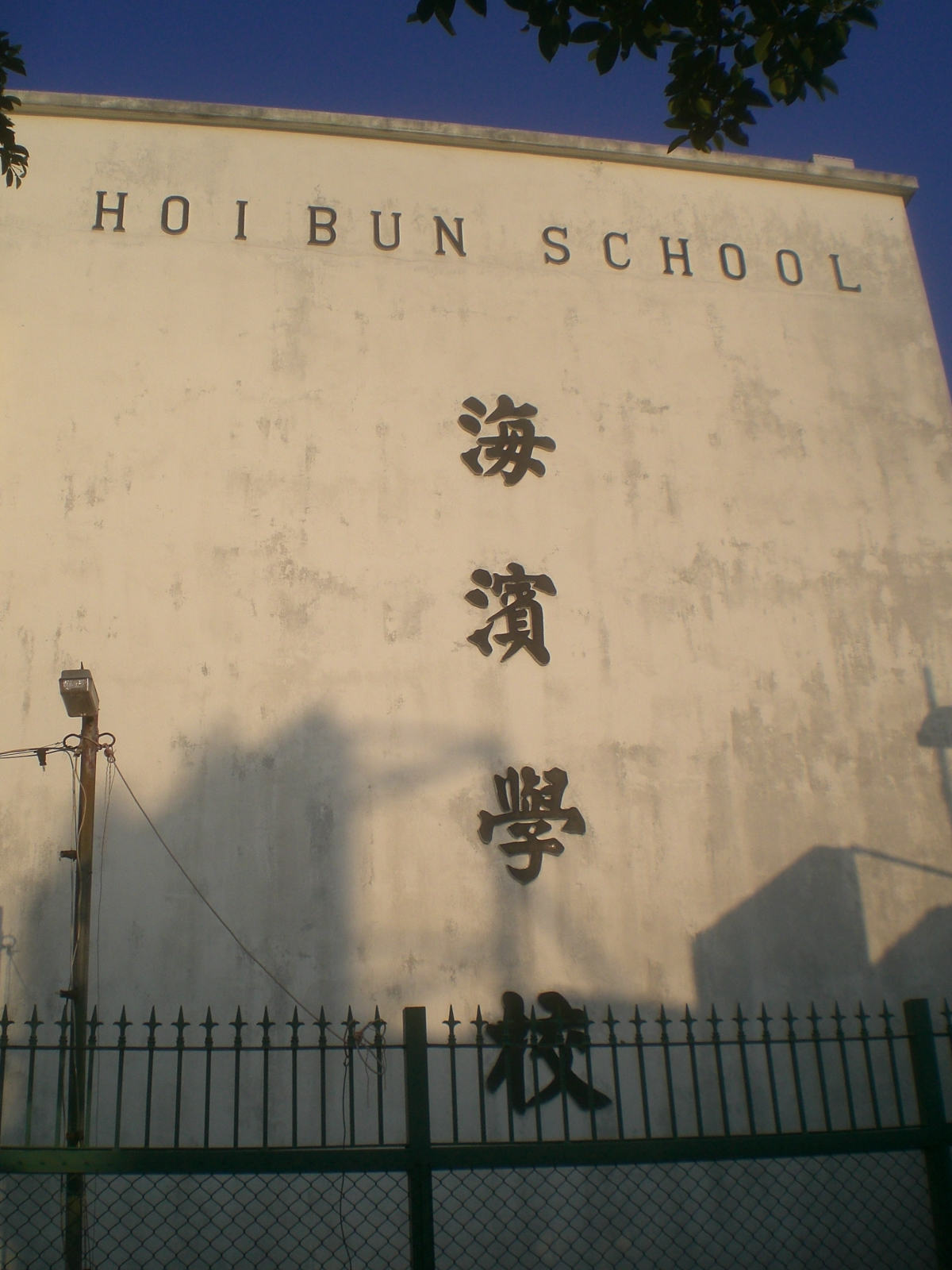 觀塘區鯉魚門村 海濱學校 在zh:黃昏 ]